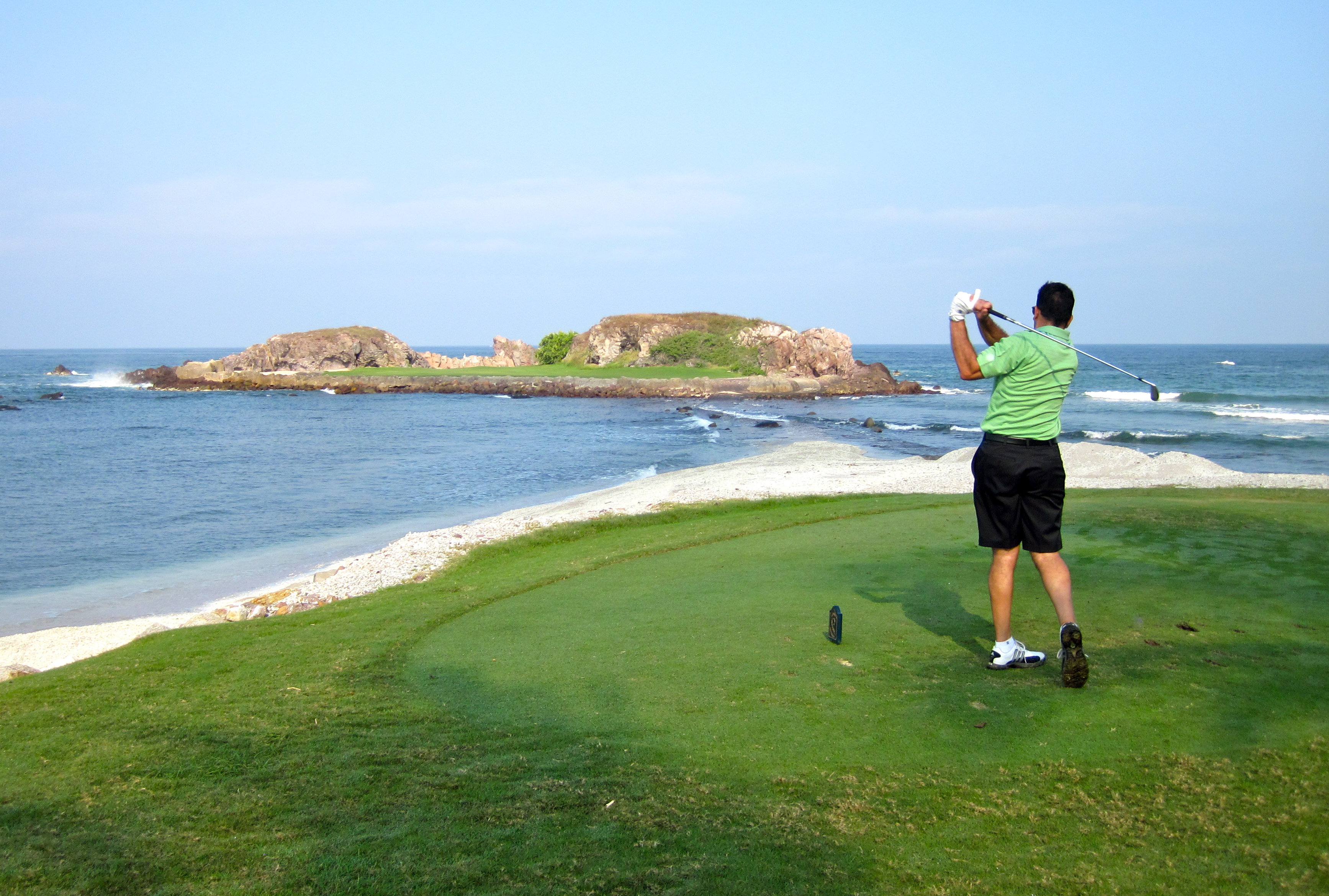 Image of golfer in final swing position